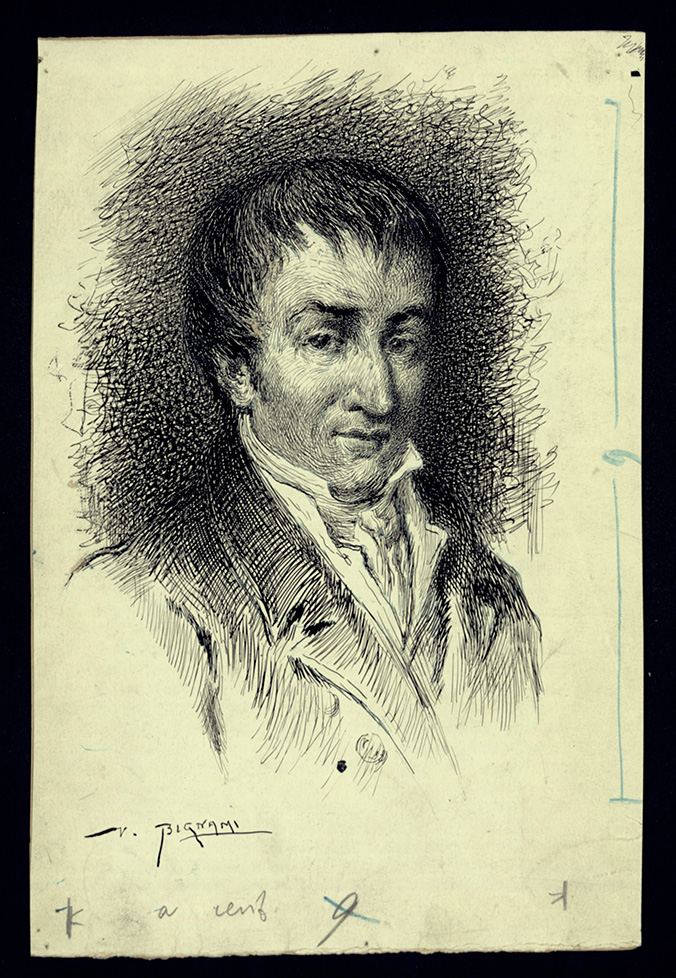 Portrait of Ferdinando Provesi, composer (1770-1833), before 1929.